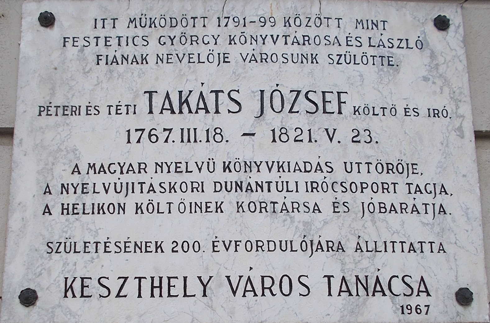 Festetics Palace main building south wing extension built by Kristóf Hofstädter (1870). Plaque of József Takáts poet and writer- - Keszthely, Zala County, Hungary.